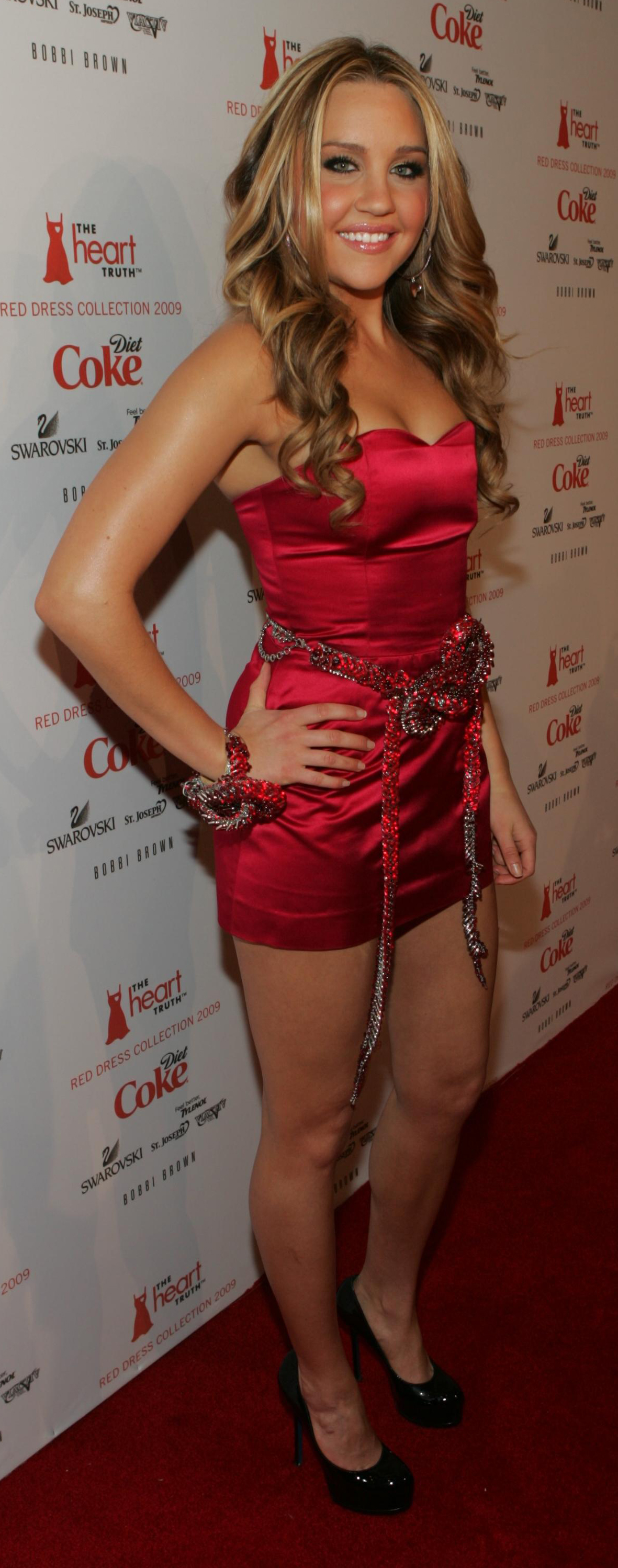 Backstage at The Heart Truth's Red Dress Collection Fashion Show during New York Fashion Week. February 13, 2009 at Bryant Park.